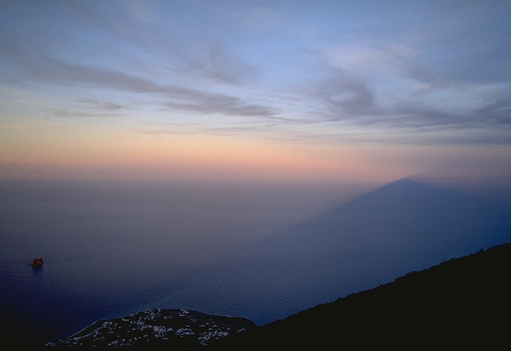 Taken from Bastimento (750 msl) as a swift cold front was just about to sweep the area, the image portrays the shadow of Stromboli stretching some 60 kilometers across South-Eastern Tyrrhenian.